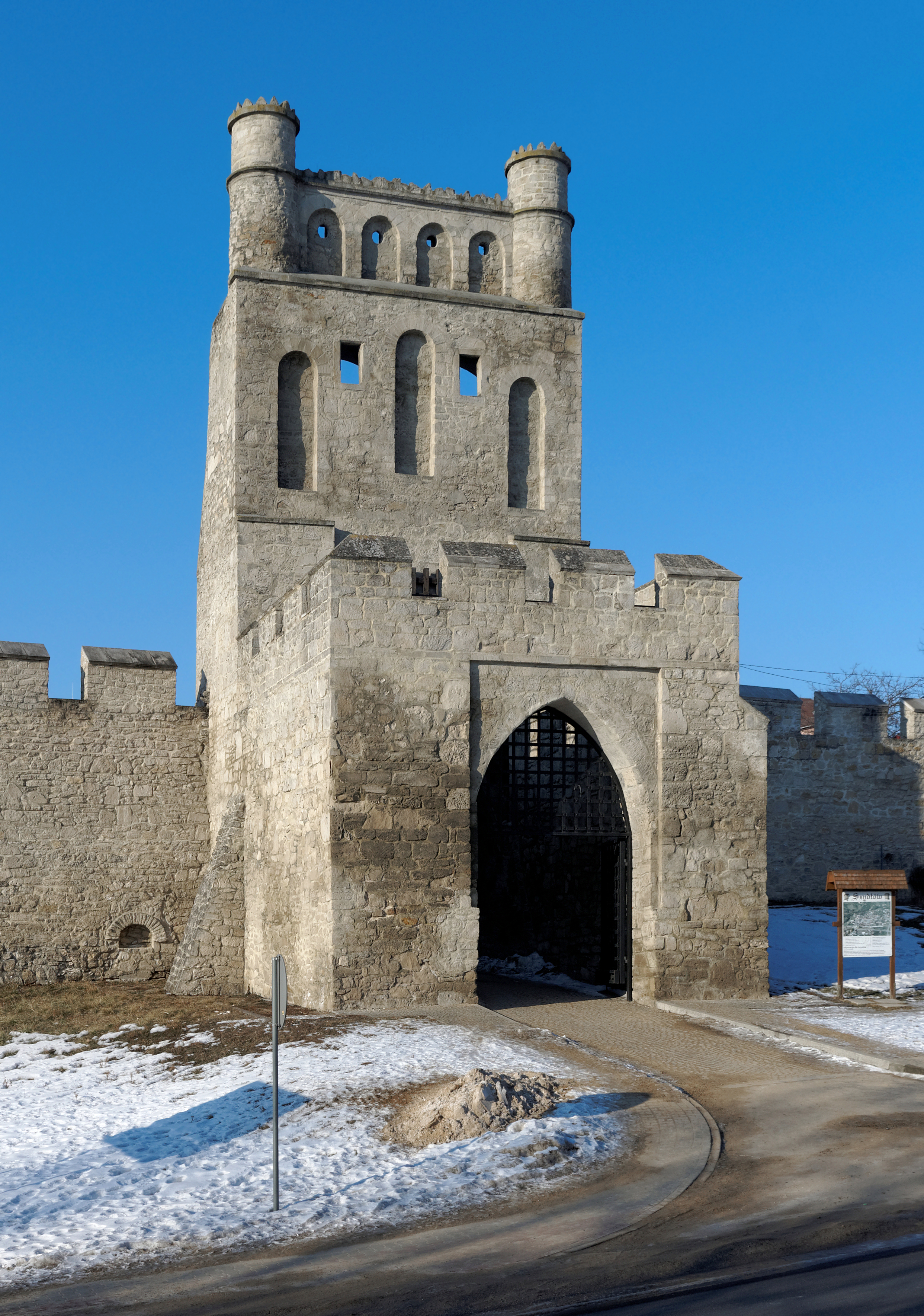 Kraków Gate in Szydłów